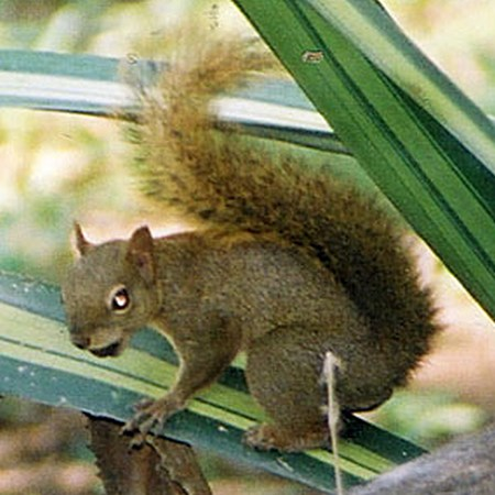 A Bolivian Squirrel in eastern Bolivia. This species complex is also found in Peru to east of the Andes.